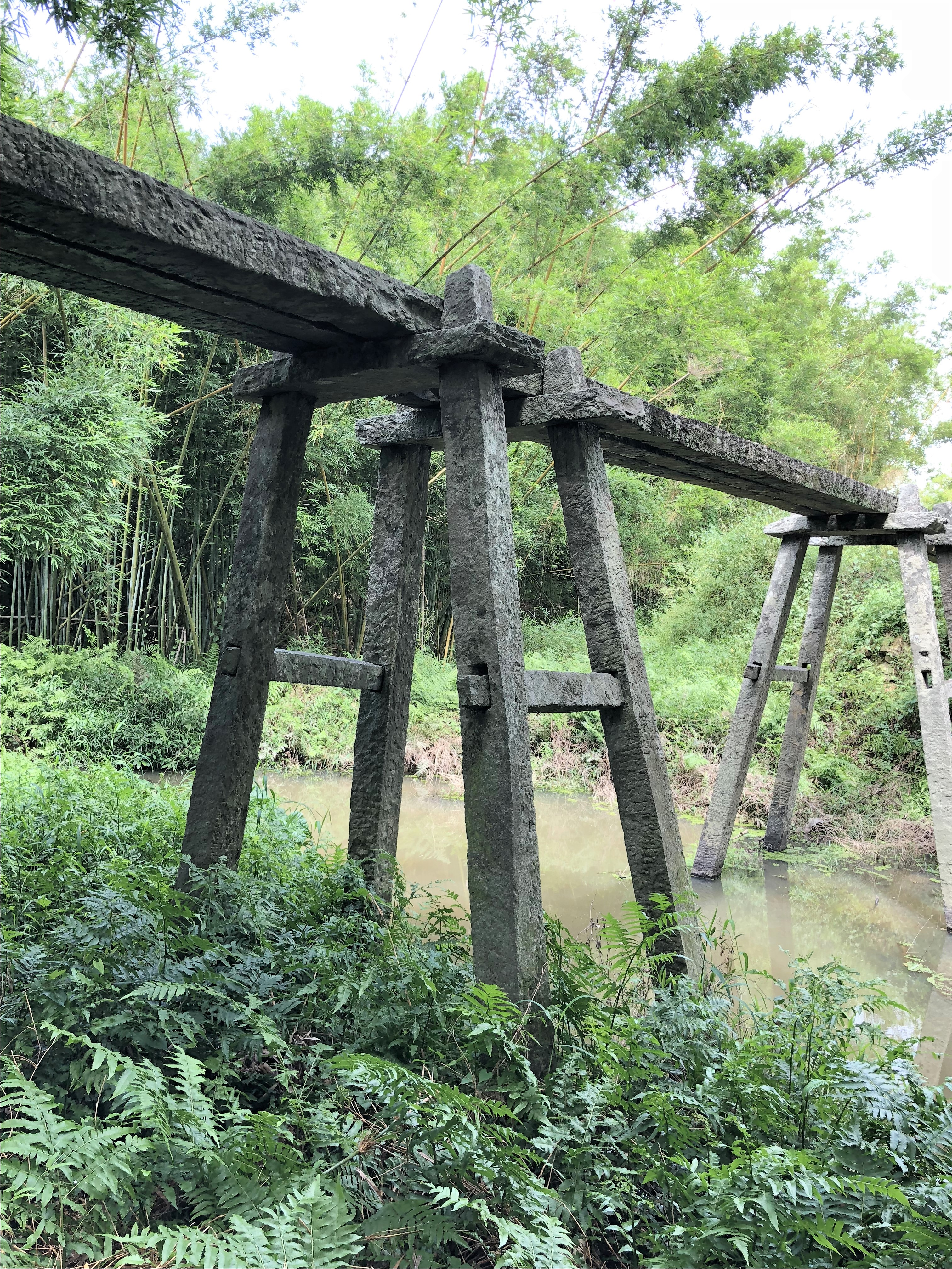 Huangshatang High Bridge